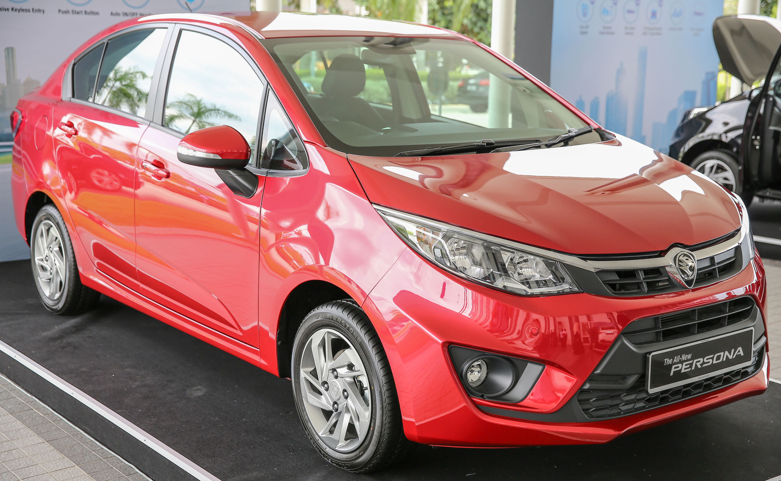 A photo of a red Proton Persona at the launch venue in Shah Alam.